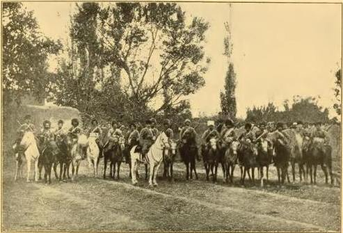 The mounted troops of the second battalion of Armenian volunteers of the Caucasus, November, 1914.